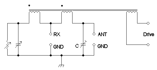 An antenna bridge for use with radio equipment